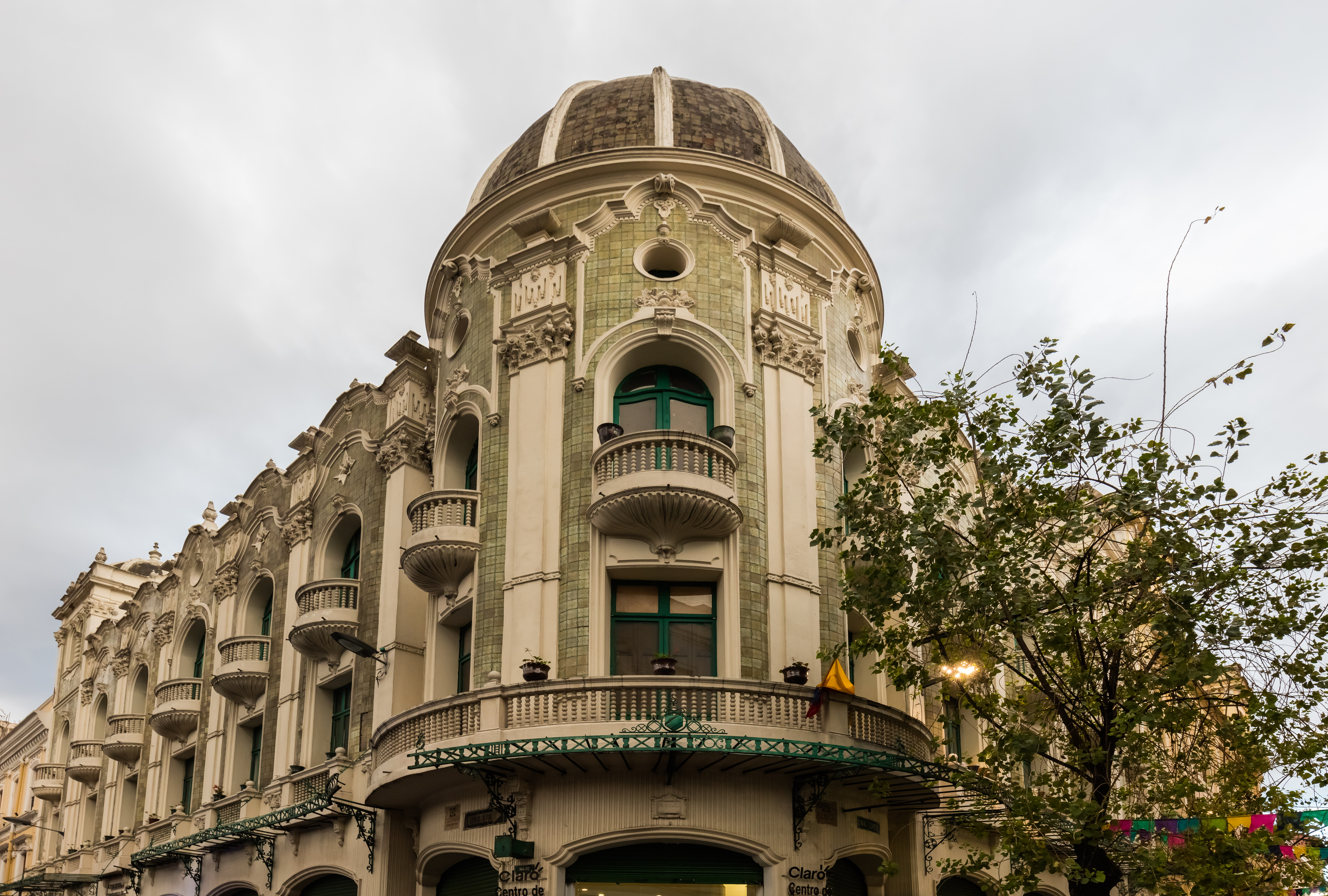 Former Banco de Préstamos, Quito, Ecuador